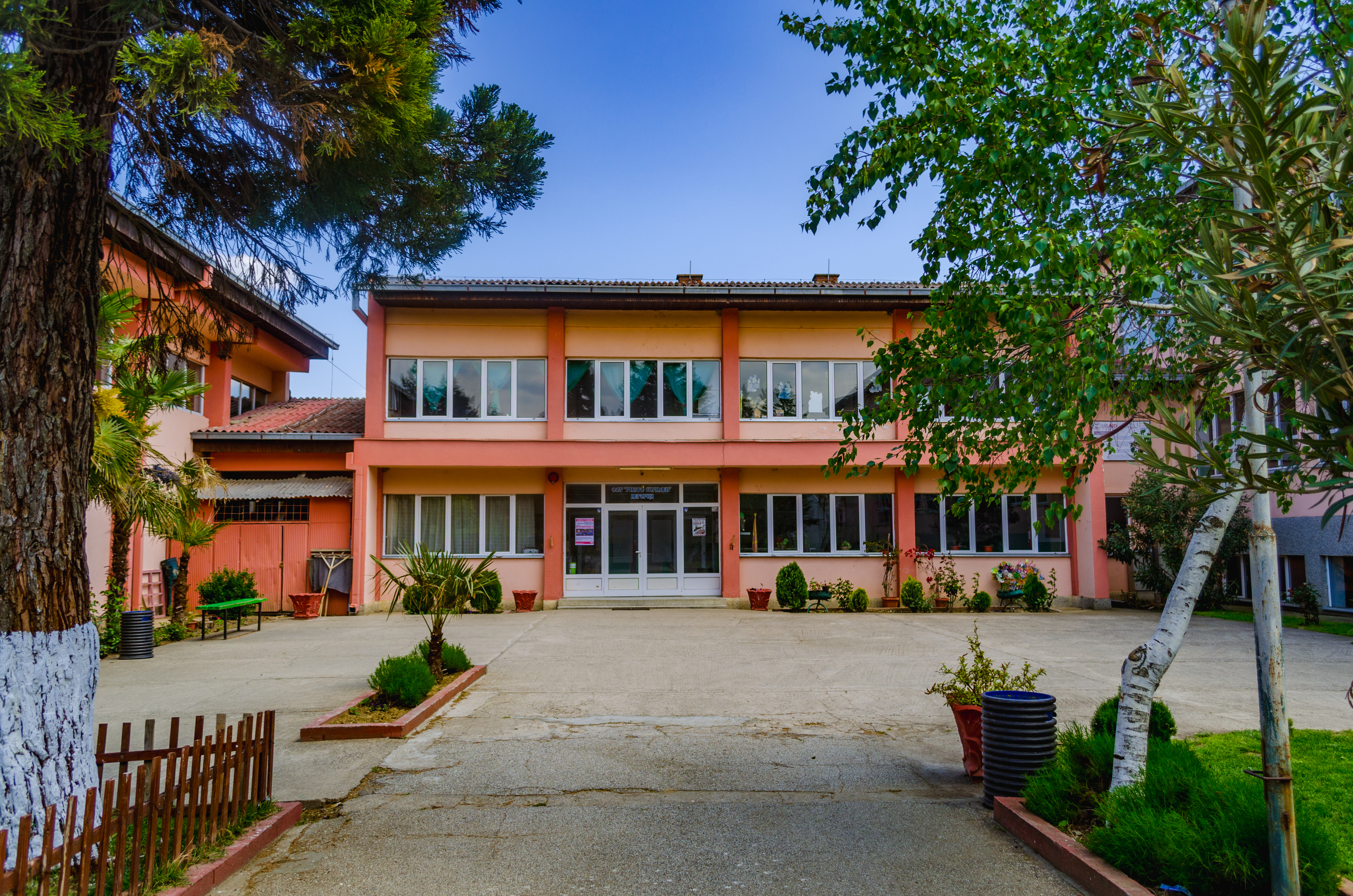 View of the primary school in the village Negorci